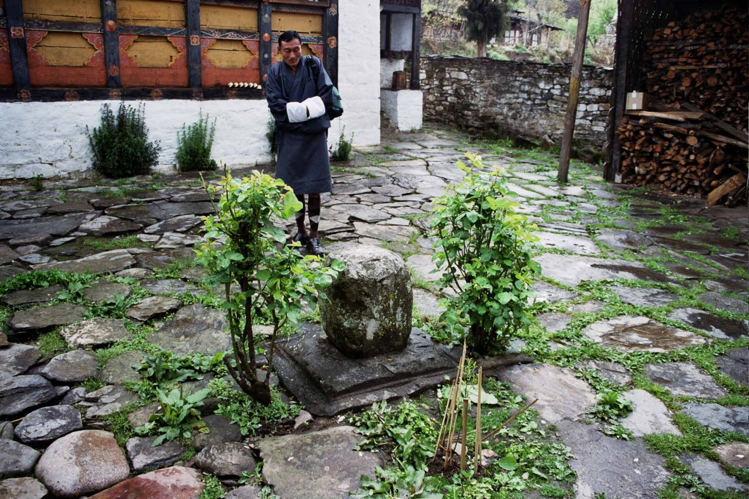 Courtyard of Konchogsum Lhakhang, Bumthang district, Bhutan. Photo taken April 25, 2002. Copyright (c) 2002 by William L. Devanney.